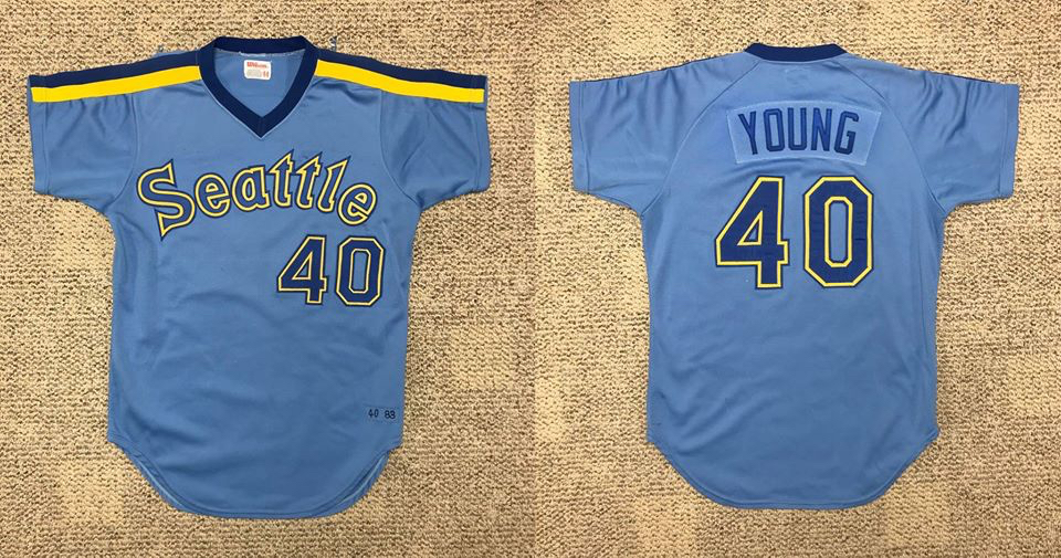 1983 Seattle Mariners #40 Matt Young game worn road jersey restored and photographed by William F. Henderson who may be reached through his website at thedream.shop